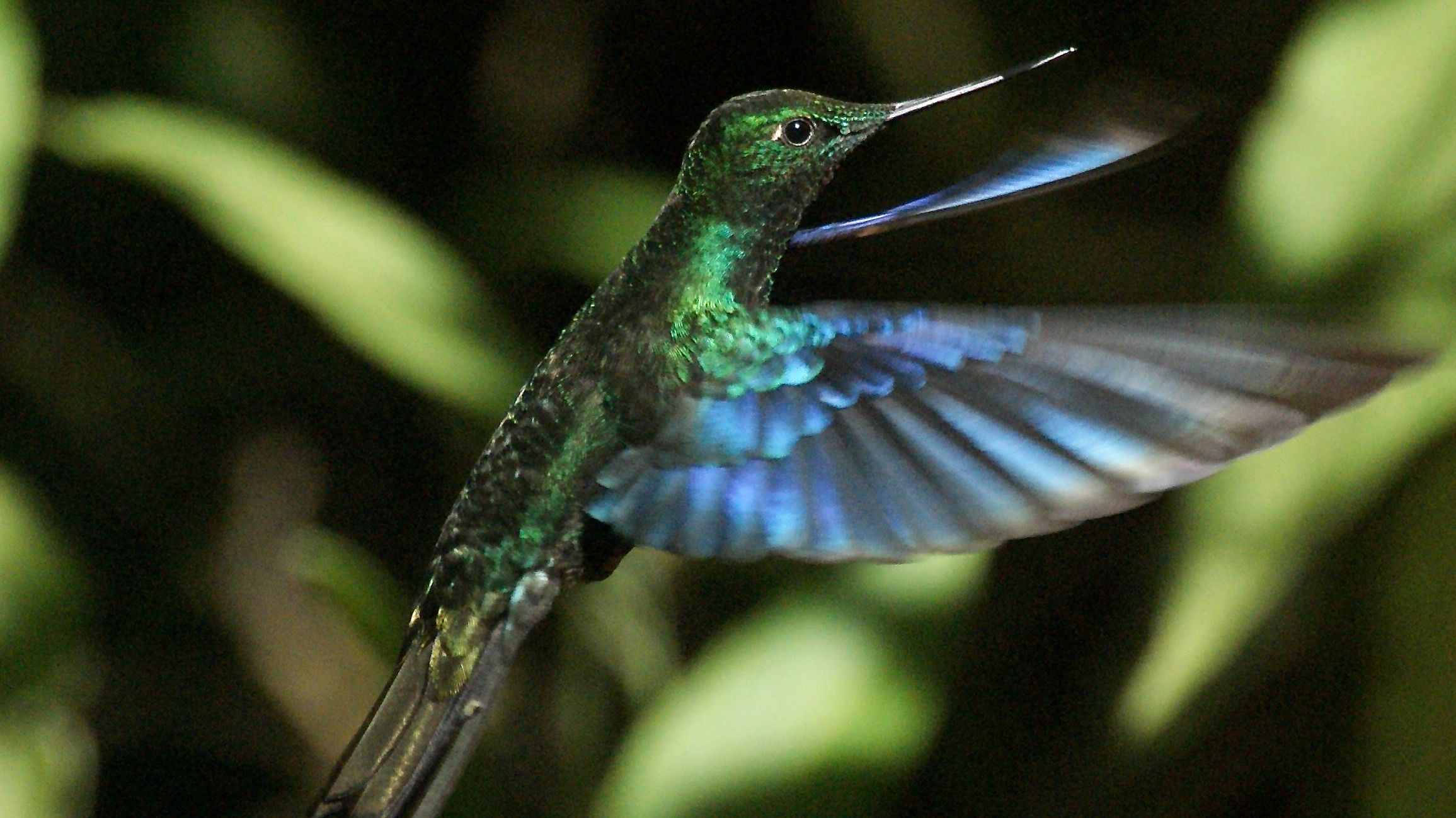 Great Sapphirewing (Pterophanes cyanopterus), Ecuador